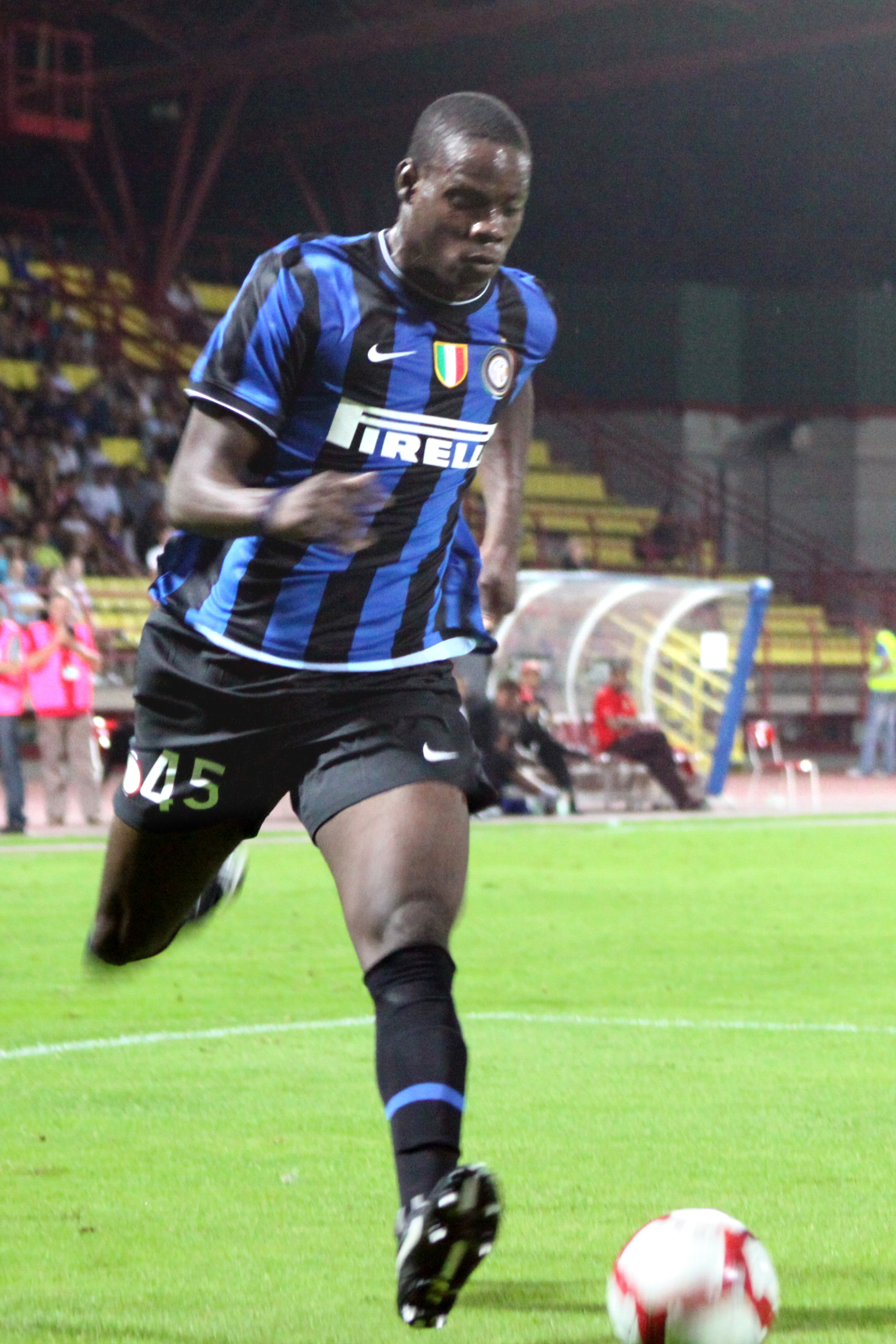 Mario Balotelli - F.C. Internazionale Milano